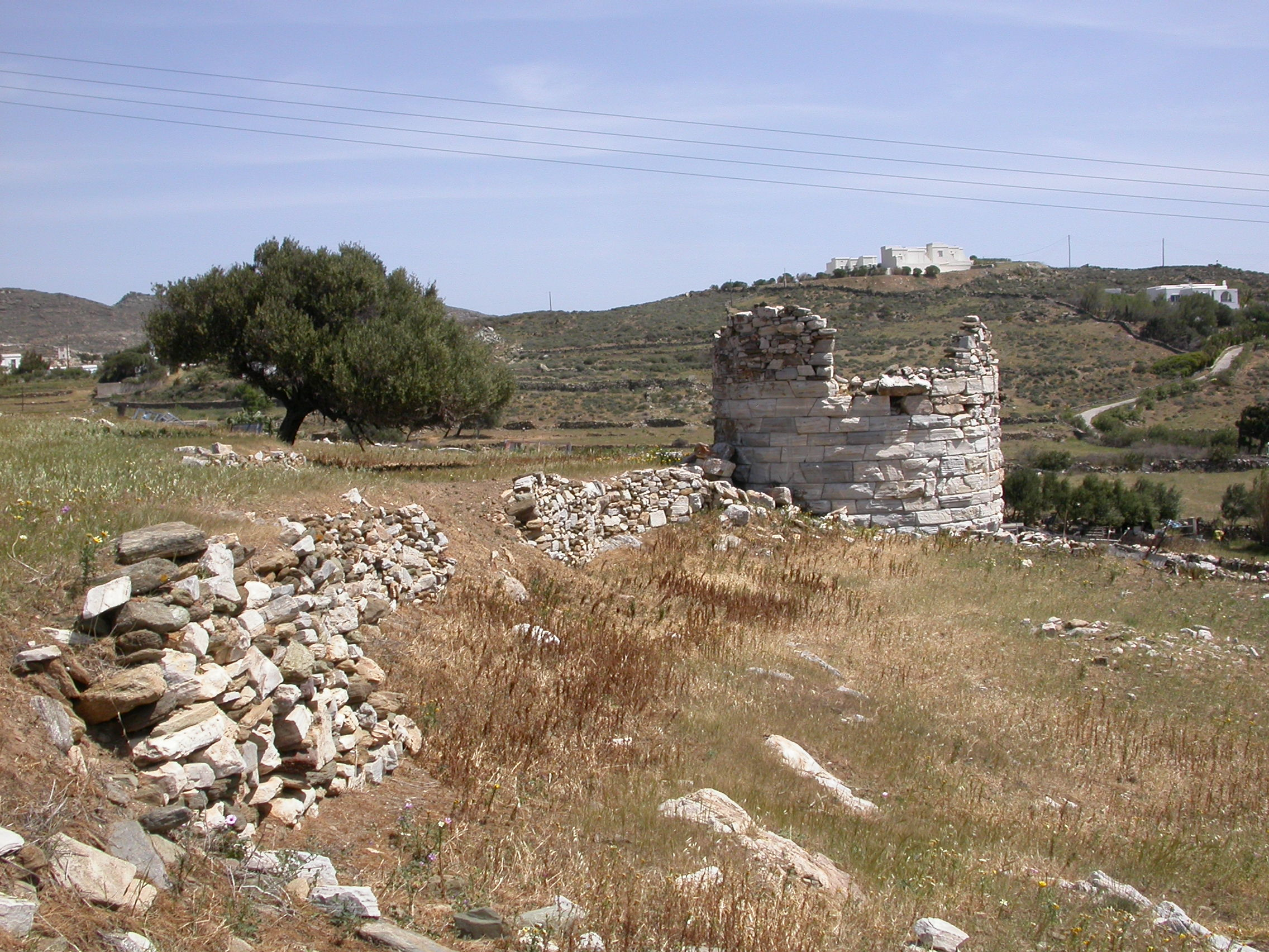 Smovolo Ancient Tower, Tinos, Greece